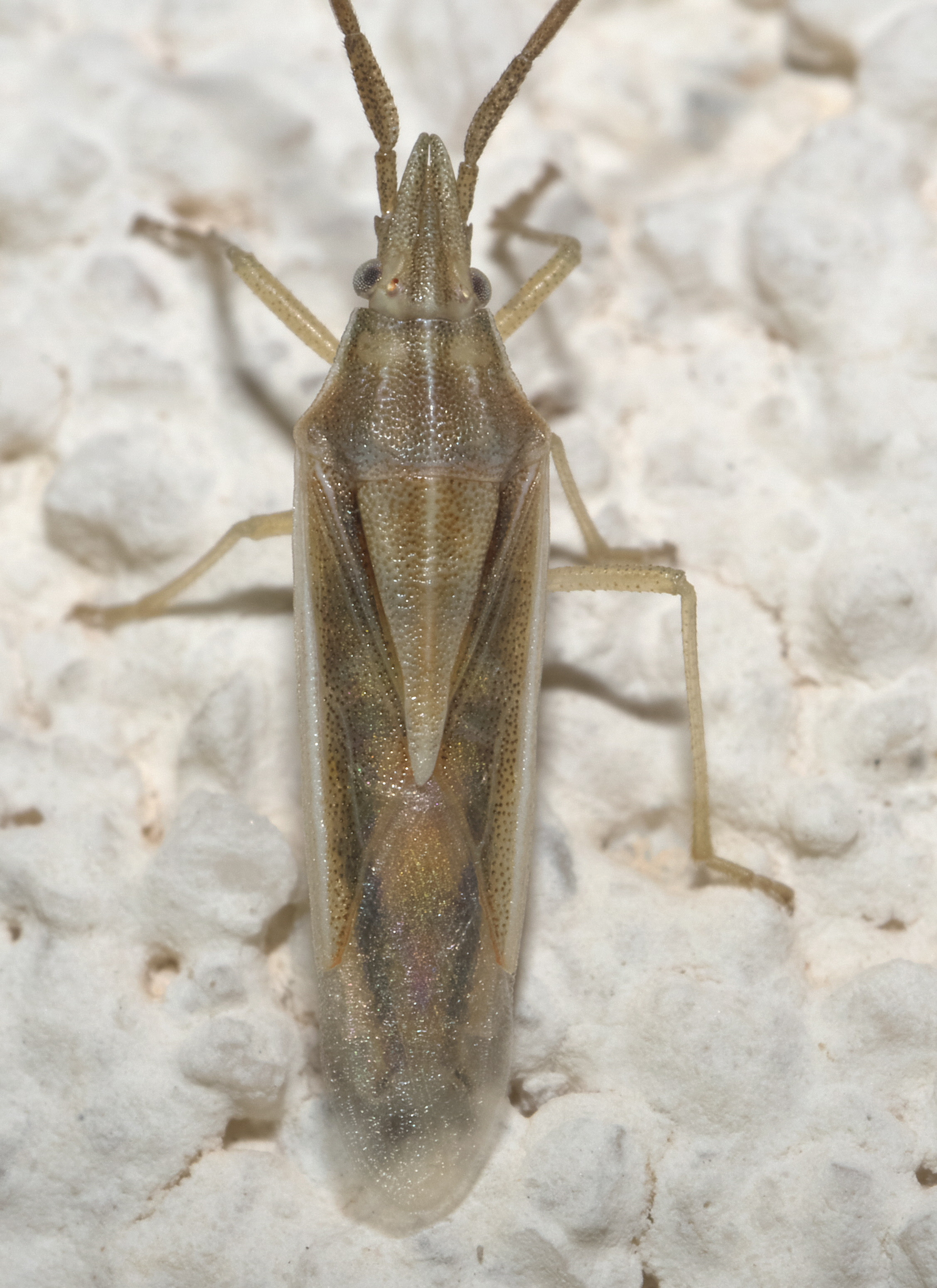 Mecidea, narrow stink bugs, Mecidea minor or Mecidea major, Size: 9.5 mm, ID Confidence: 98